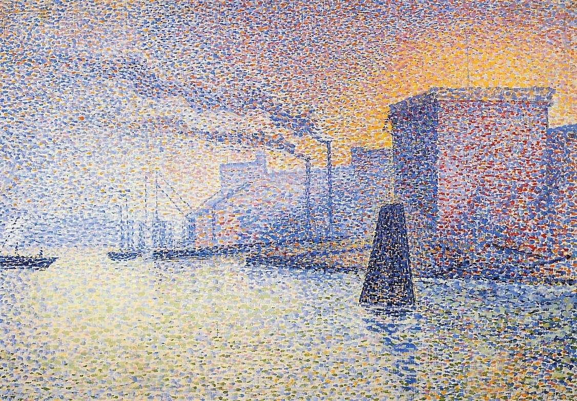 Factories on The Thames